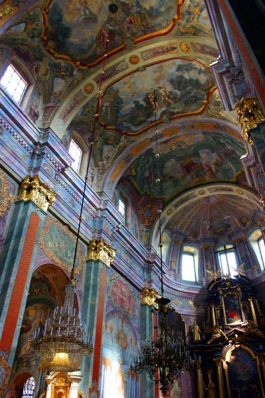 Lublin Cathedrial